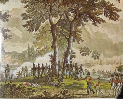 A couloured copperplate engraving showing the assualt at Classens Have (Livjægernes udfald i Classens Have) on 31 August 1807